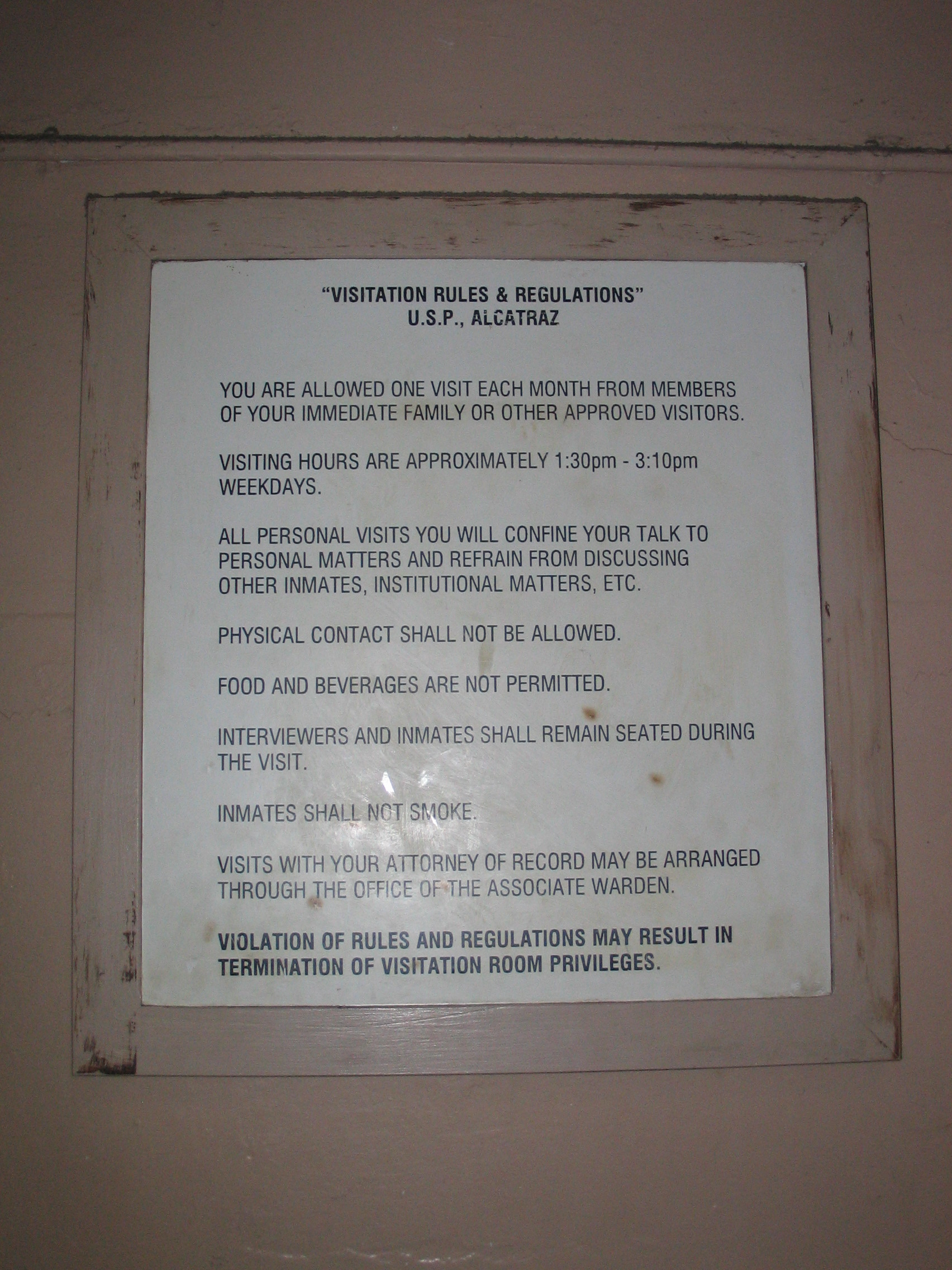 A list of visitation rules and rights for former prisoners on Alcatraz Island A list of visitation rules and rights for former prisoners on Alcatraz Island